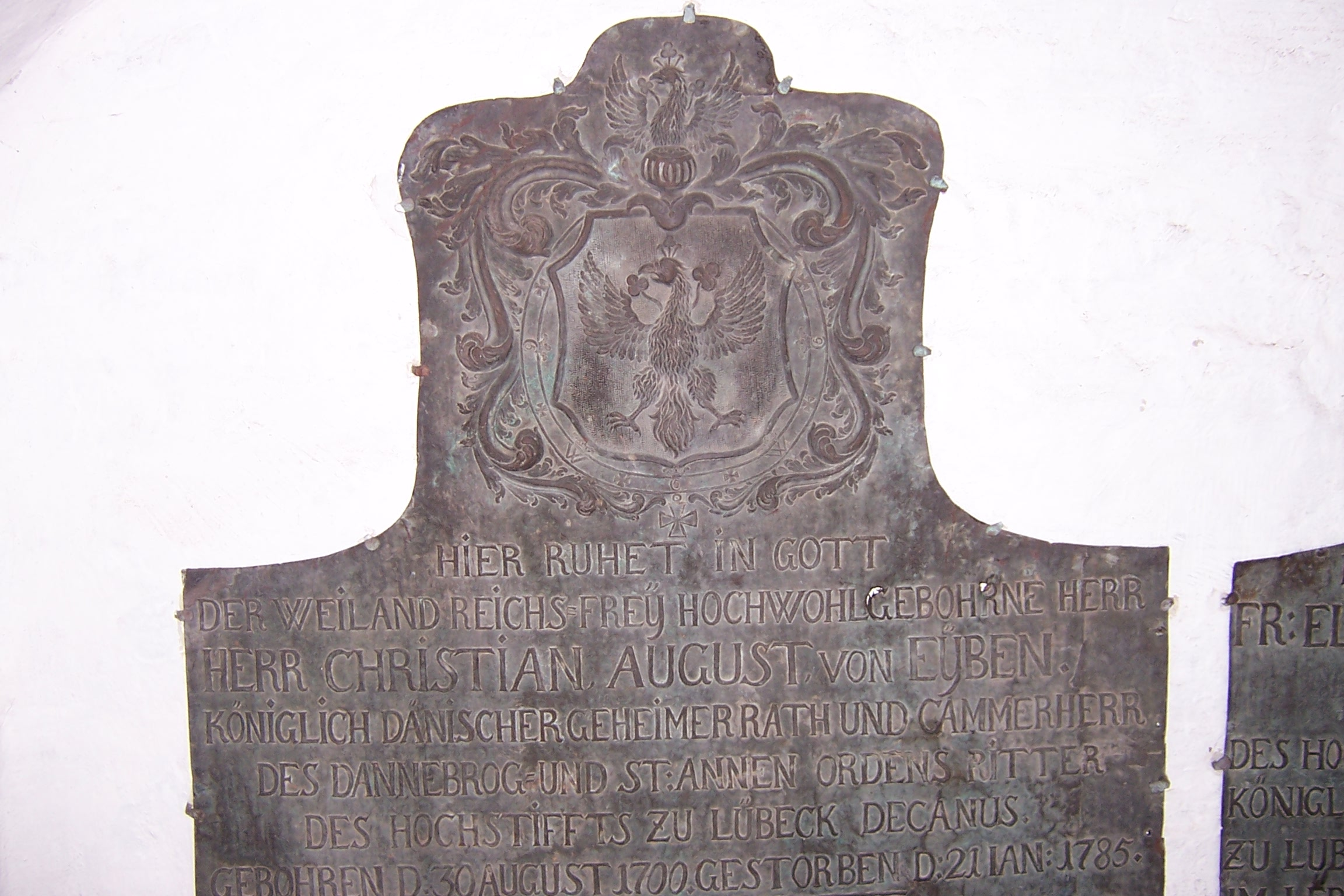 Grave plaque of Christian August von Eyben